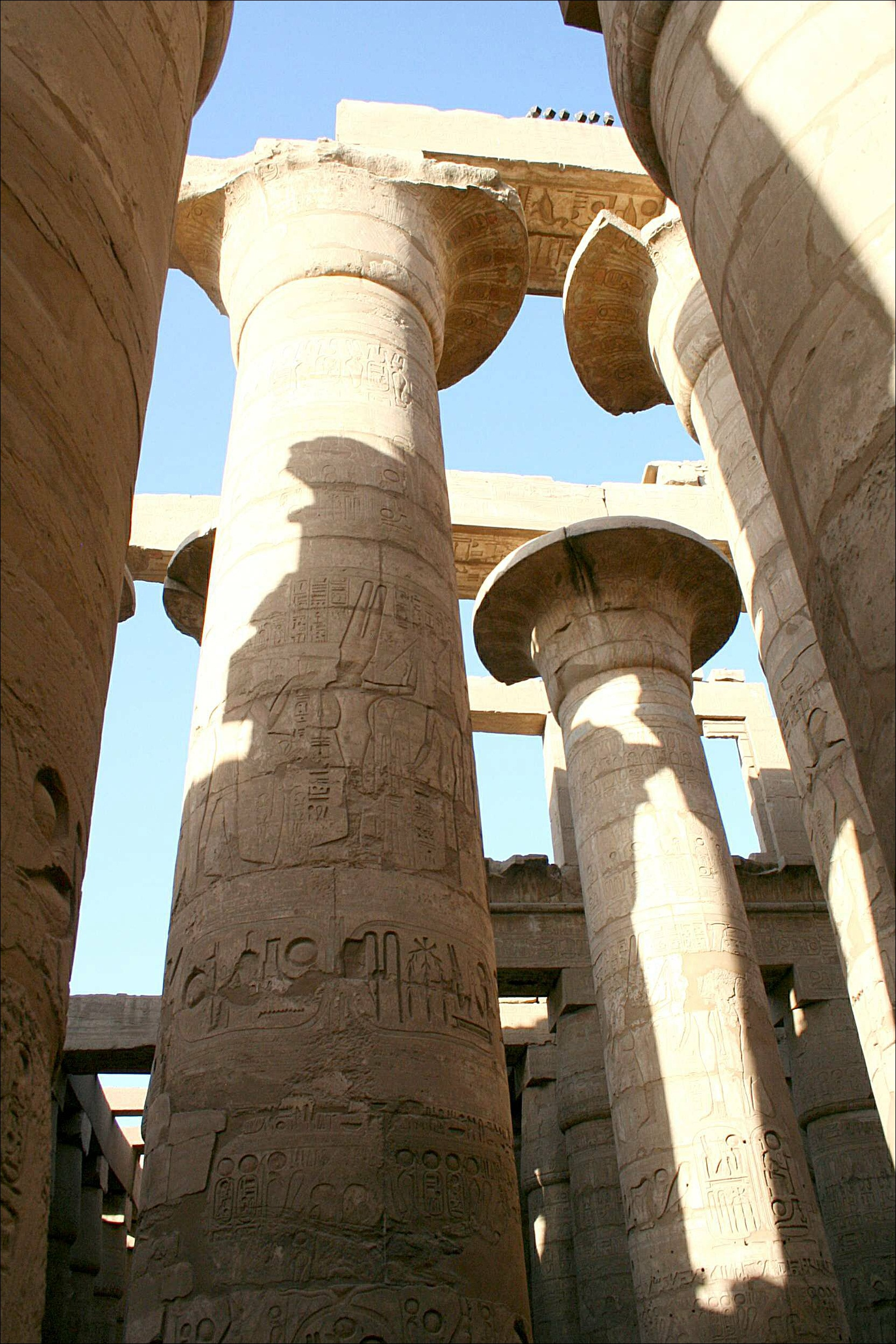 Karnak Temple - Hall